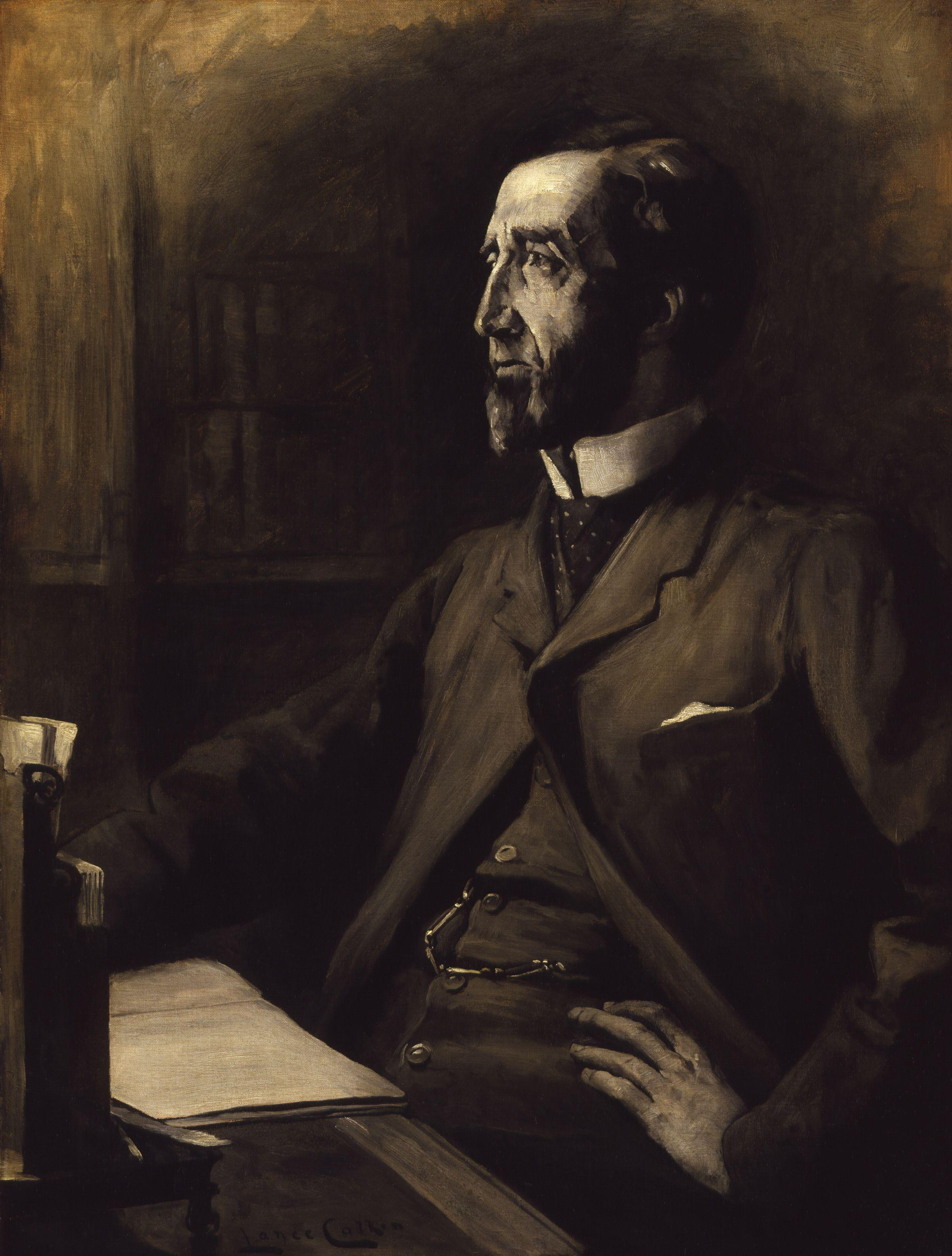 Arthur Wellesley Peel, 1st Viscount Peel, by Lance Calkin (died 1936), given to the National Portrait Gallery, London in 1958. All images in this batch have been confirmed as author died before 1939 according to the official death date listed by the NPG.